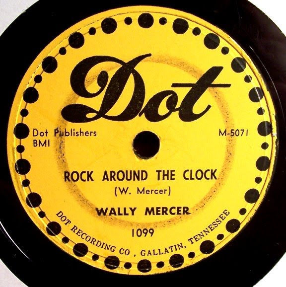 Rock Around the Clock by Wally Mercer, Dot 1952. Note that it is not the same song recorded by Bill Haley.